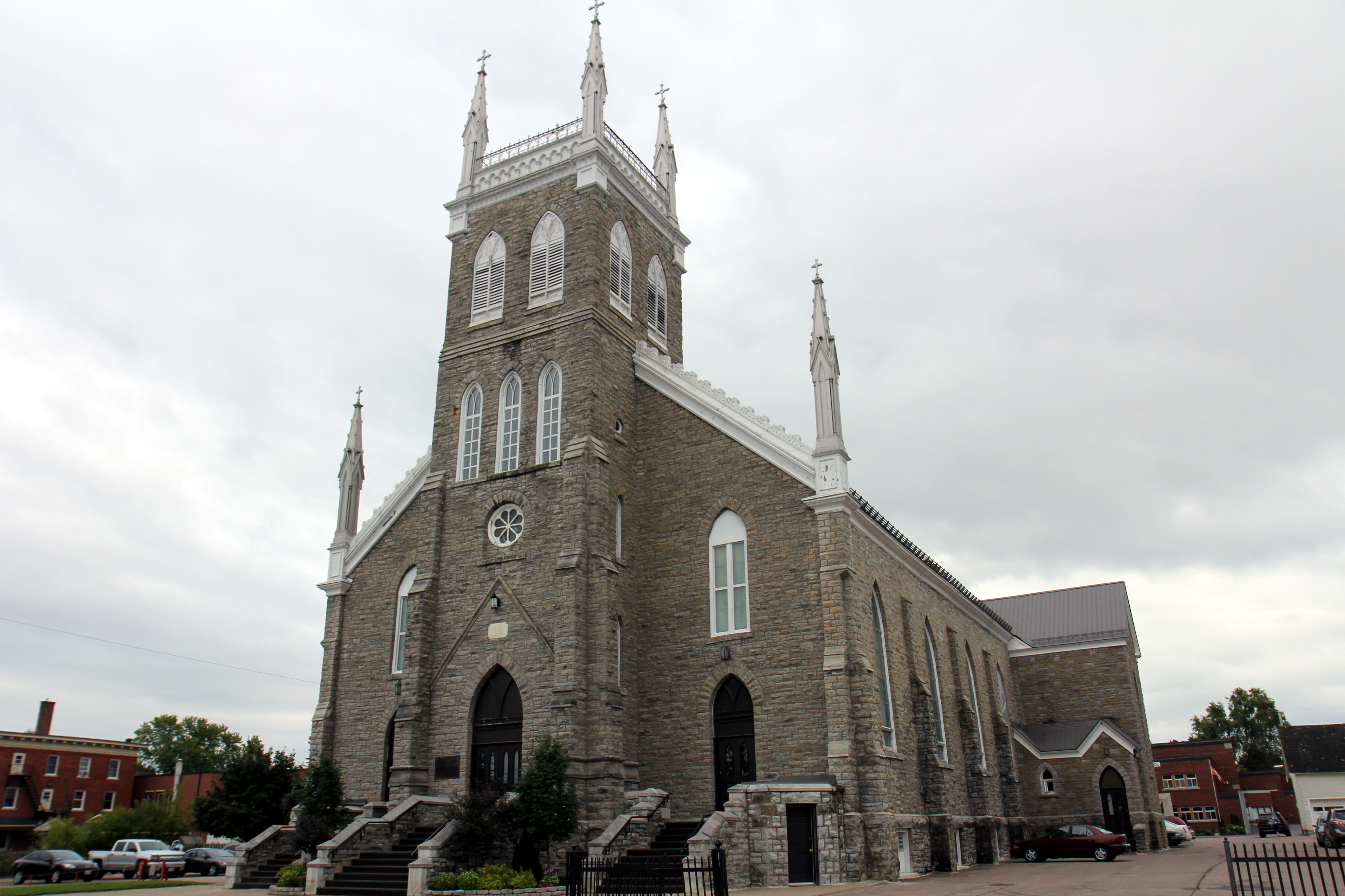 Looking left at the exterior of St. Columbkille Cathedral